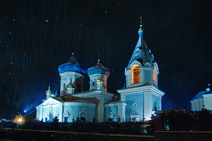 Catedrala Sf. Teodor Tiron 16.01.2010 16:42